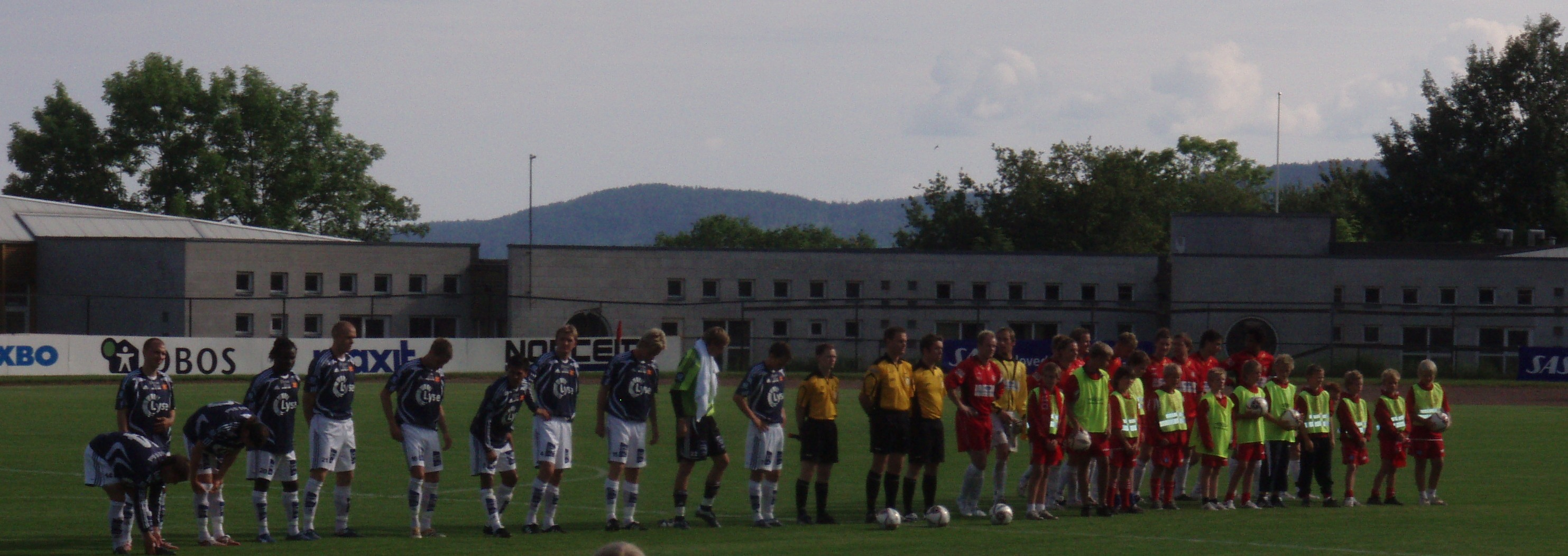 Photo from DFI-Viking (cup match June 2007 at Seiersten stadion, Frogn, Akershus)